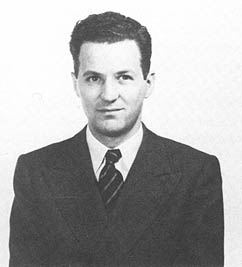 Antonio Ferri, Italian aeronautical engineer (1912-1975). Pioneer in high-speed aerodynamics research.